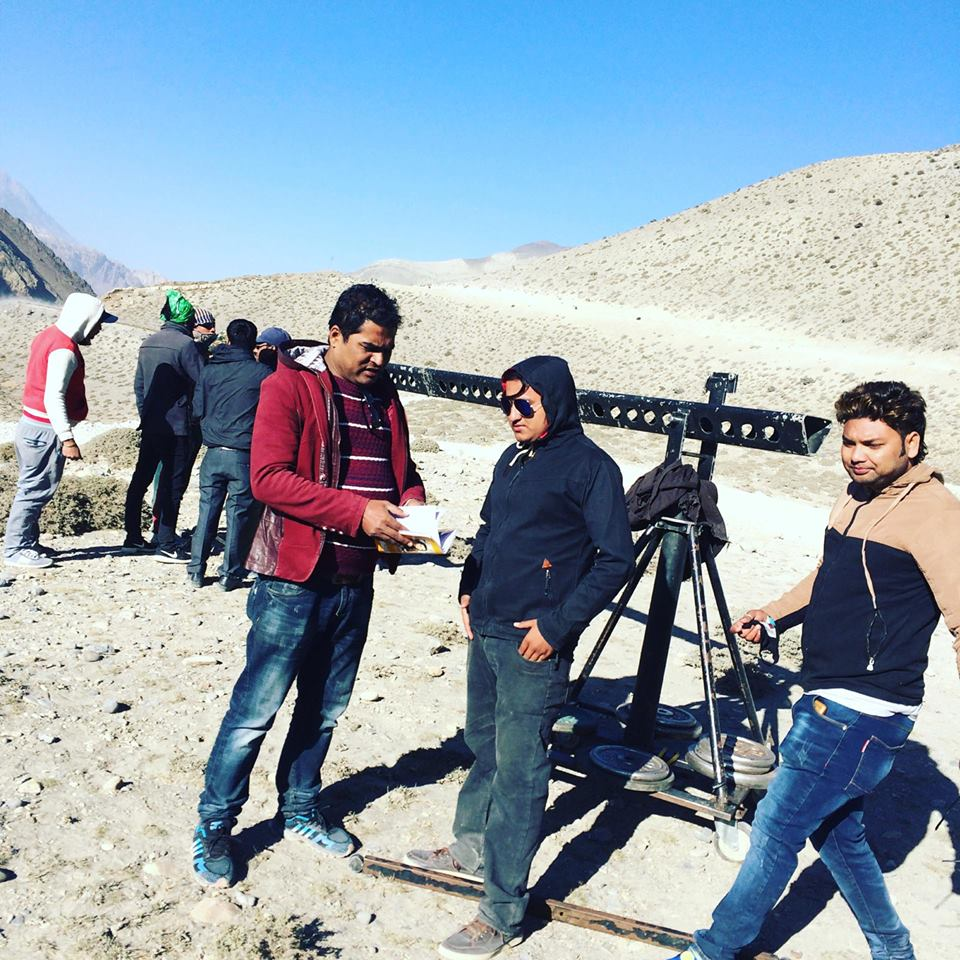 Shooting at mustang for film